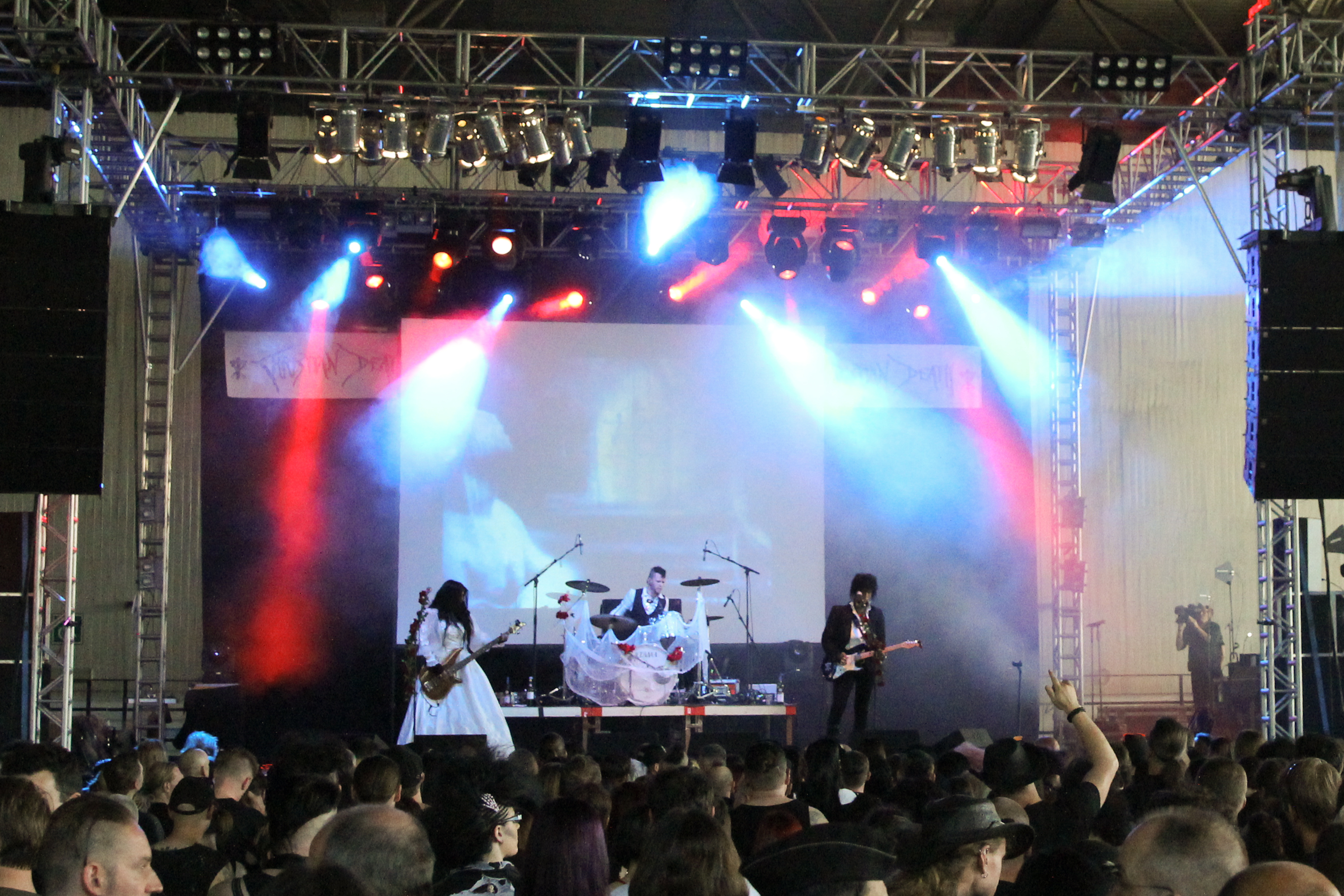 Christian Death at the Wave-Gotik-Treffen 2014.